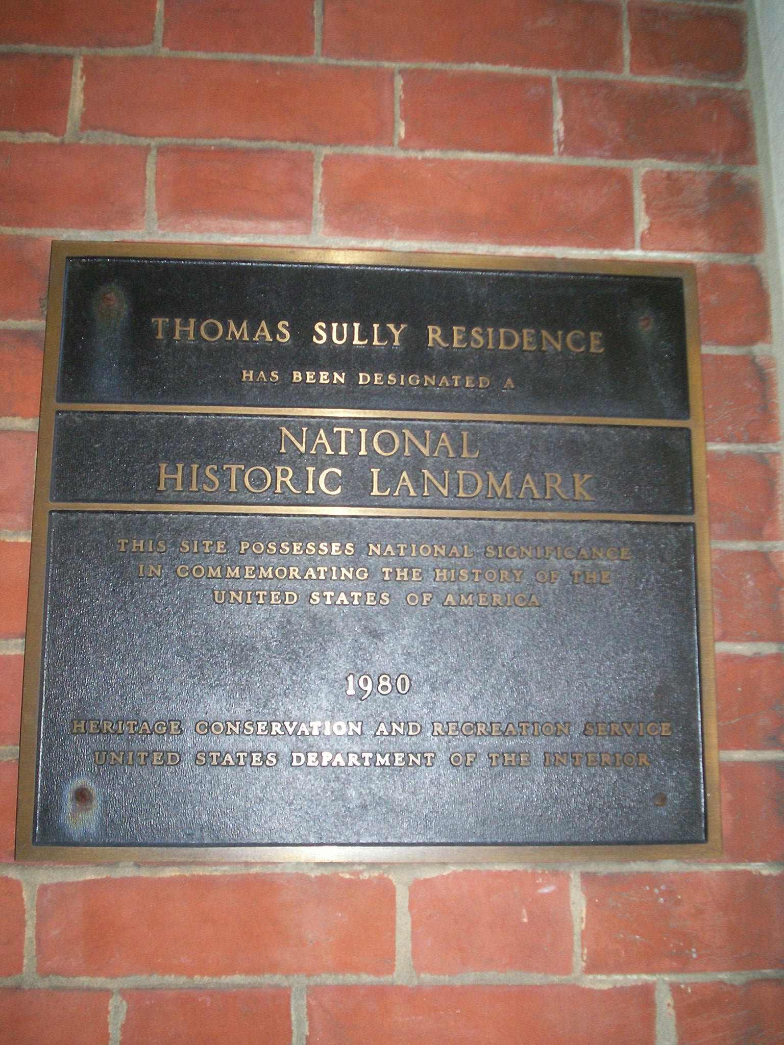 Plaque on the former home of artist Thomas Sully in the Society Hill area of Philadelphia, Pennsylvania.